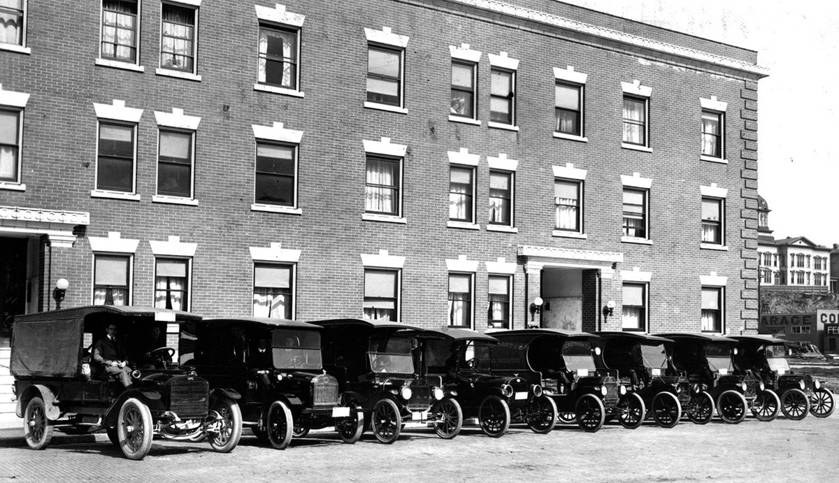 Merchants Parcel Delivery (UPS) fleet of vehicles in Seattle in 1916.